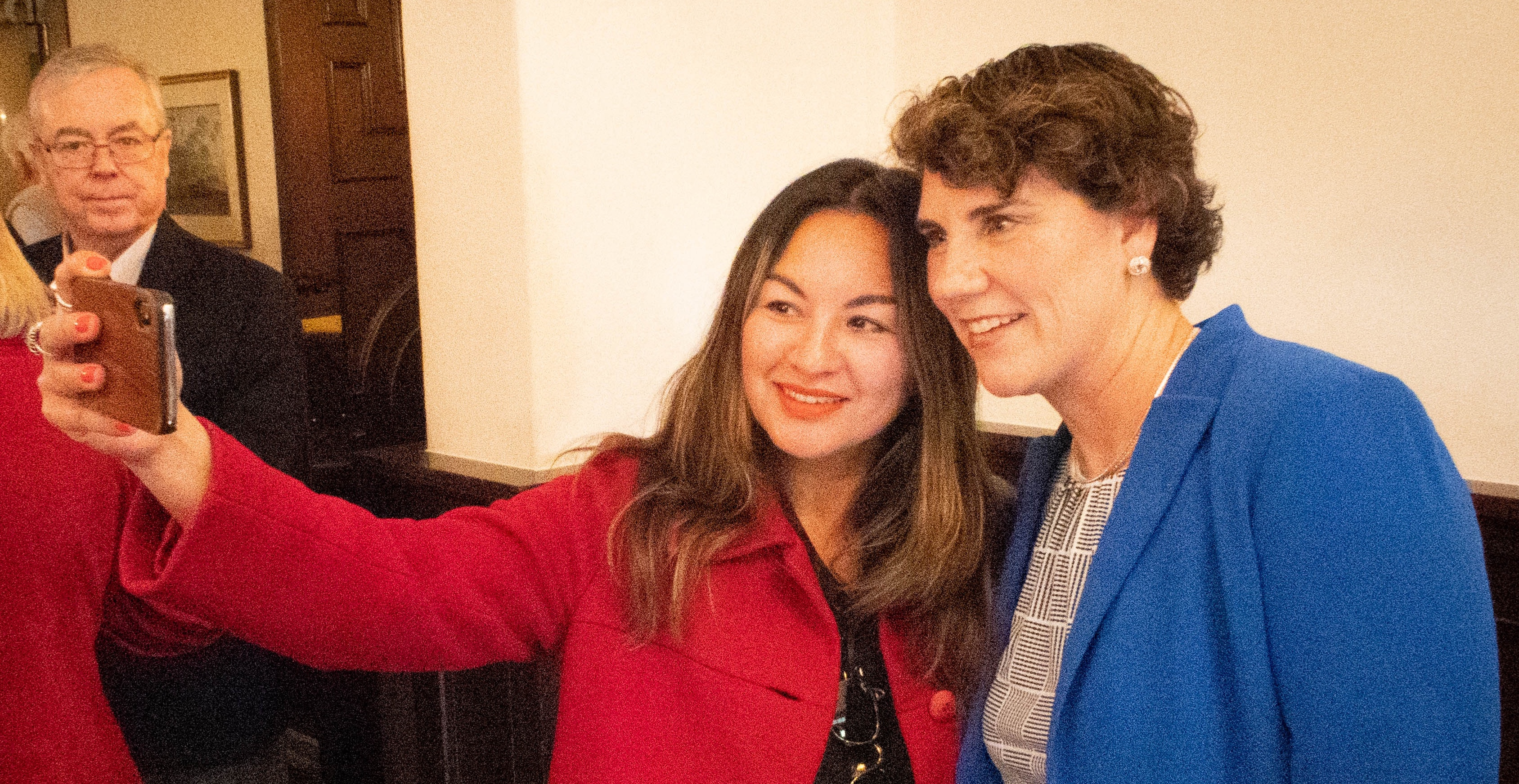 Amy McGrath Event-0910 - Cropped